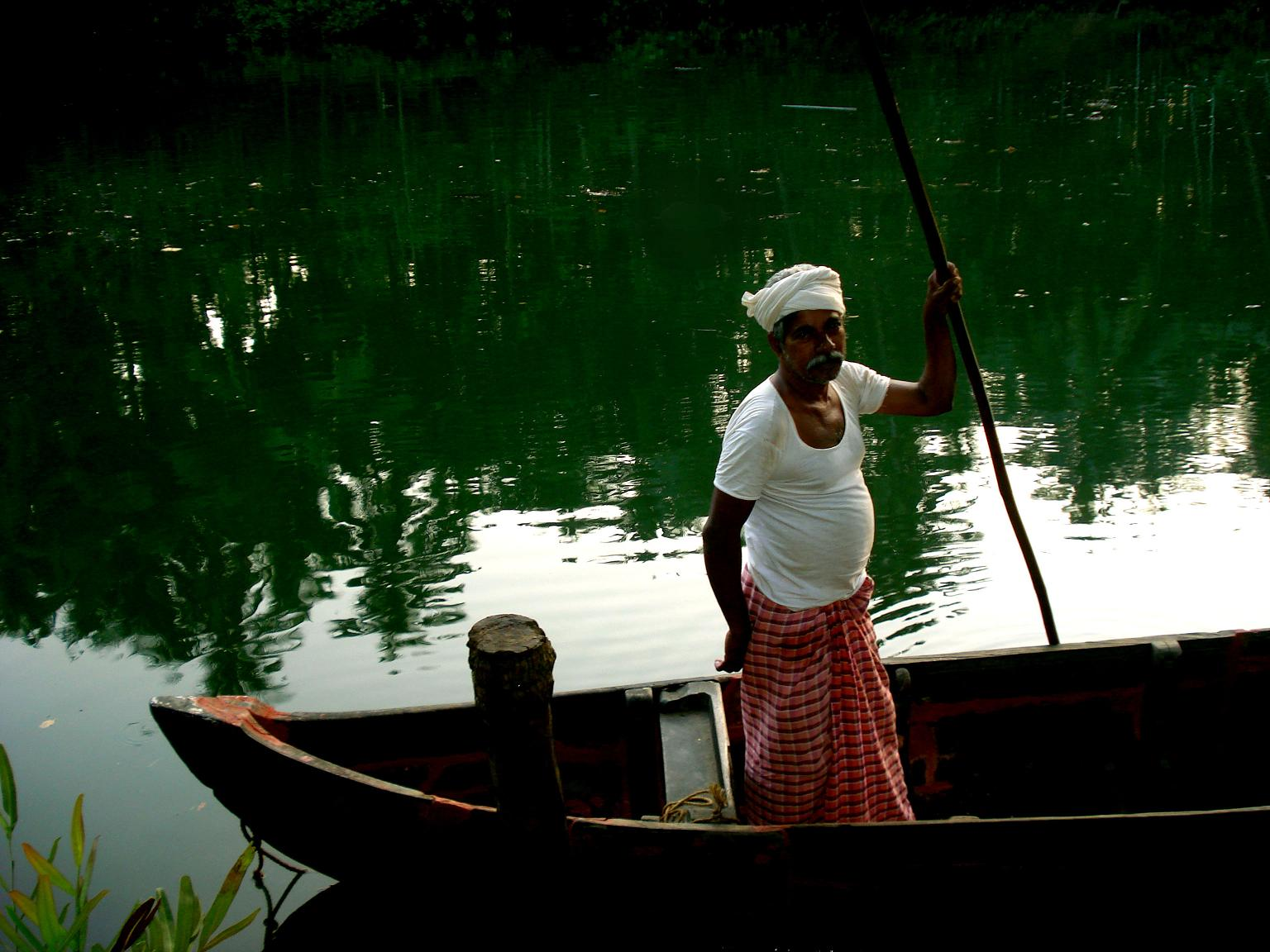 A boat near the riverside